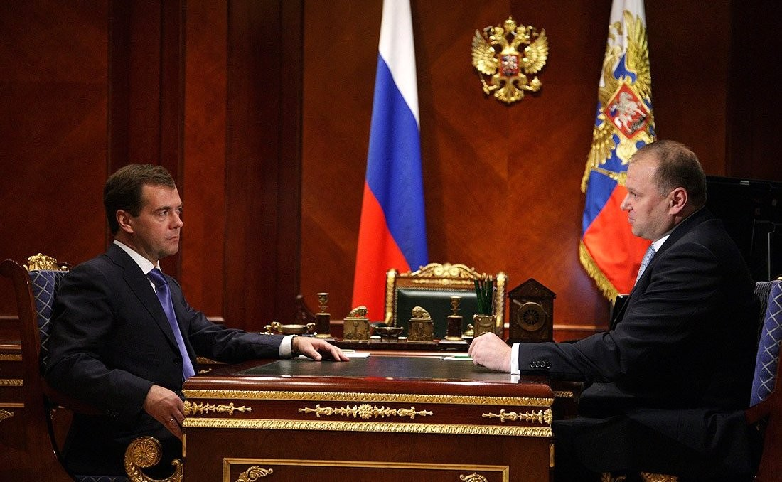 Russian president Medvedev and Nikolay Tsukanov (governor of Kaliningrad oblast)